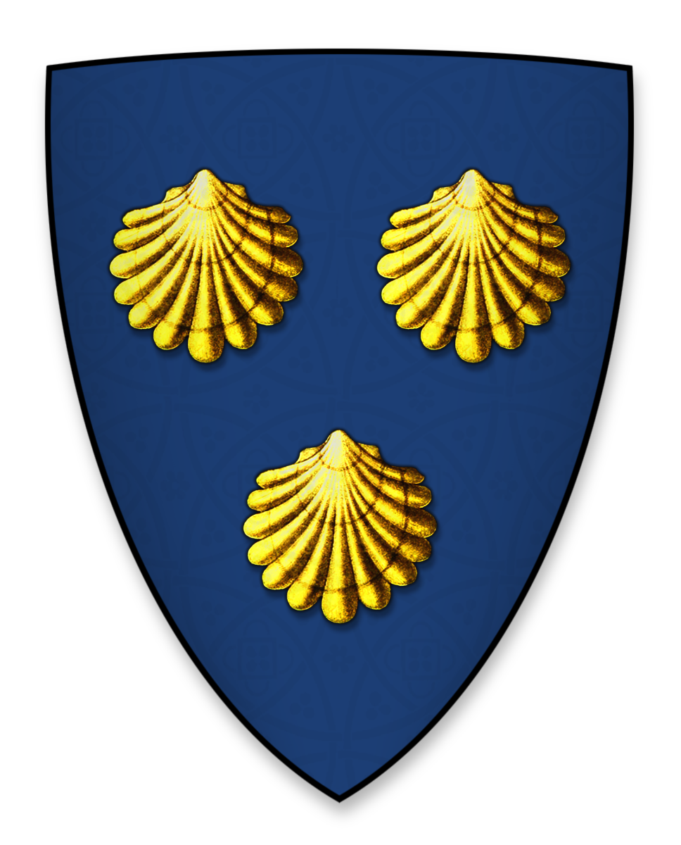 Coat of arms of William Malet, Sheriff of Somerset and Dorset